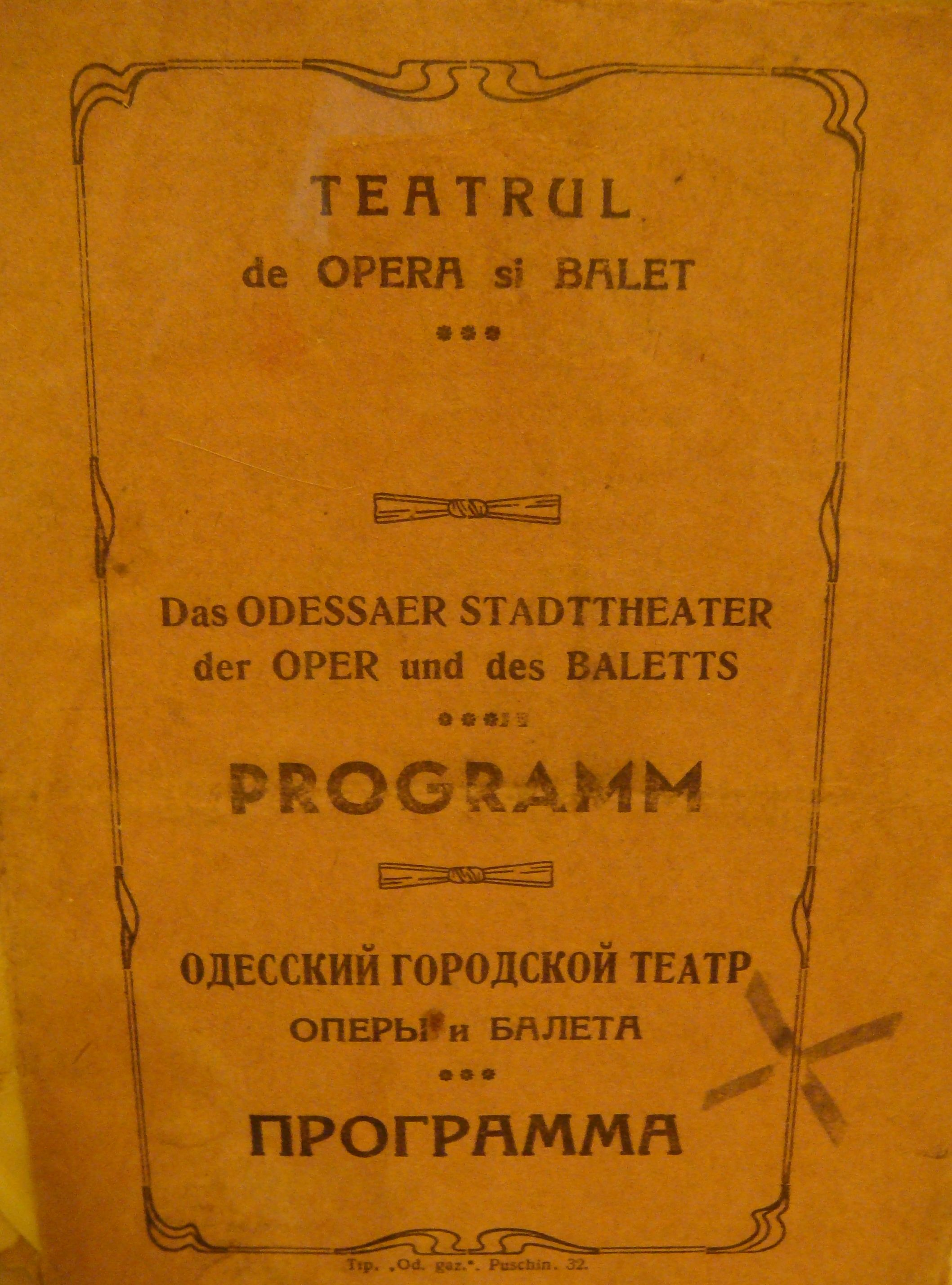 Odessa Opera Theater program. Nazi occupation of Odessa (District Transnistria). Historic memorabilia exhibited in Odessa Museum of Local History